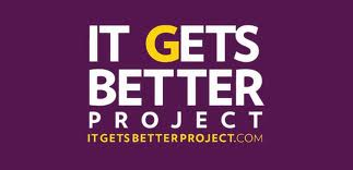 It Gets Better Project